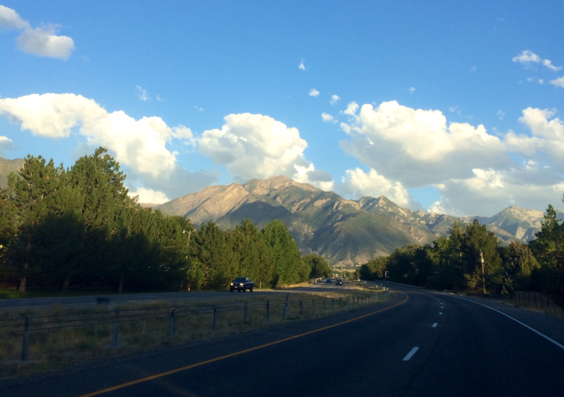 Utah State Route 152 approaching 1300 E looking east